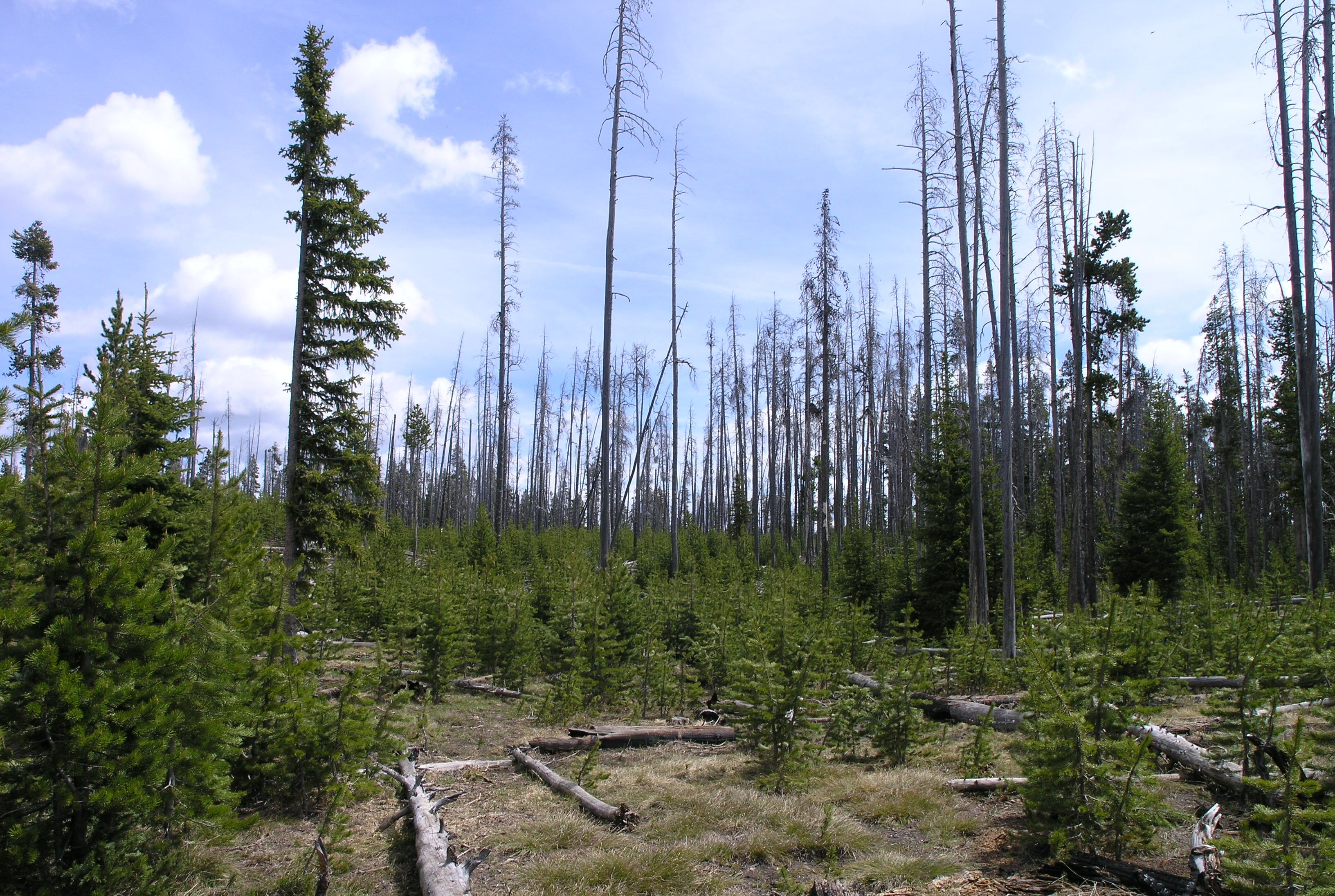 Burnt trees and regeneration after fire. Surviving old tree at left is Picea engelmannii, young trees mostly Pinus contorta